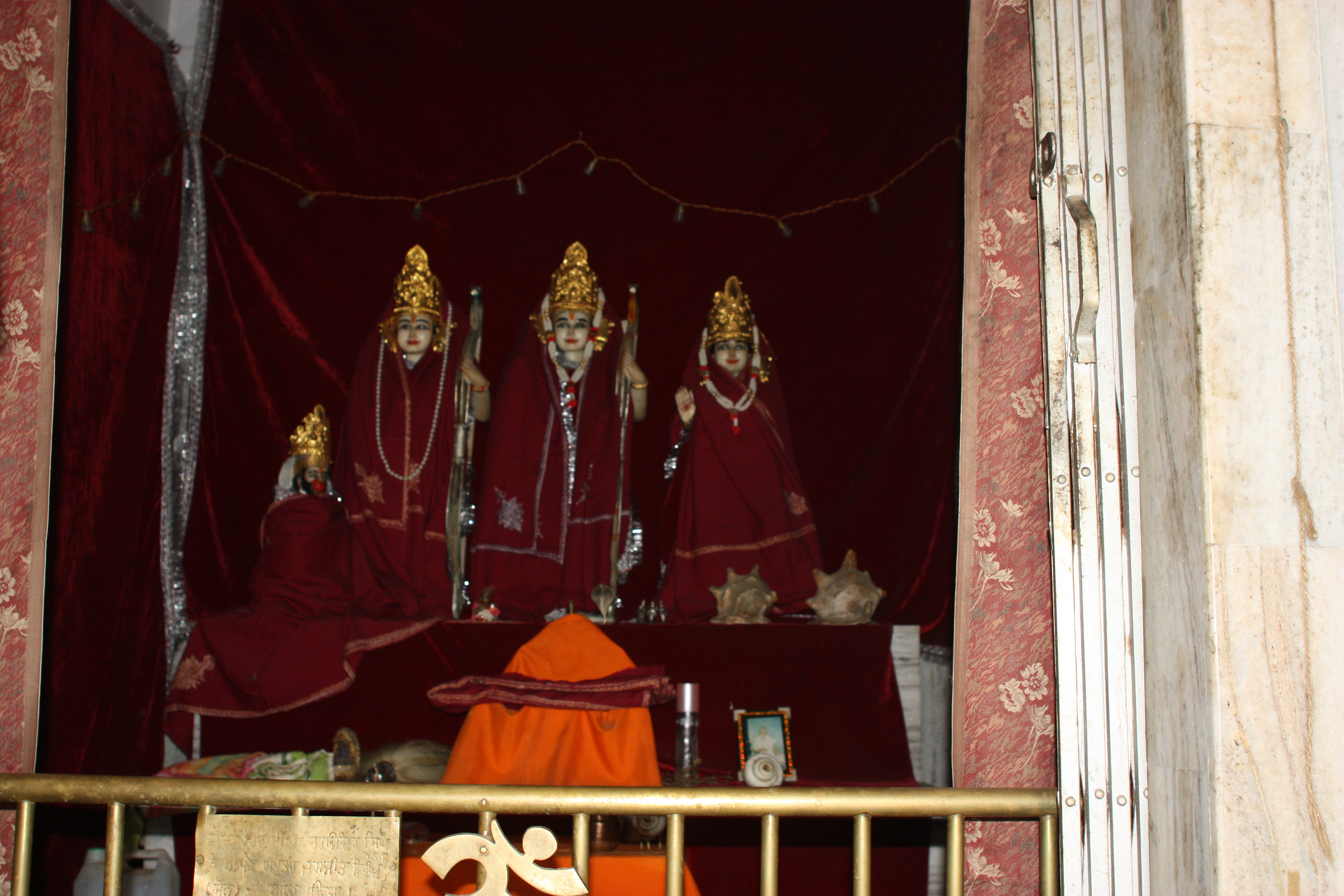 Takhurdwara